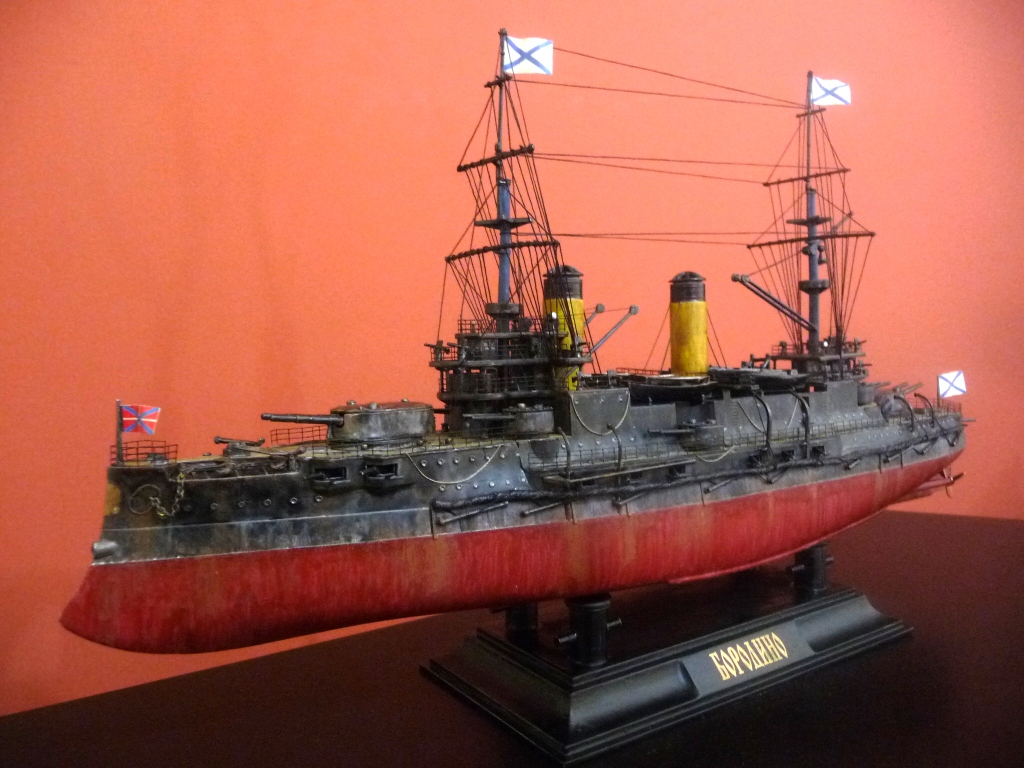 IRS Borodino